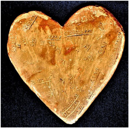 Reverse side of the Latin Heart